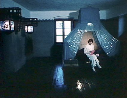 Psyche returns to Europa after the war